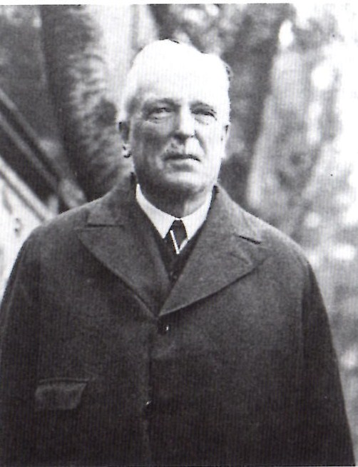 The portrait of Barclay Fowell Buxton when he visited Japan in 1937.